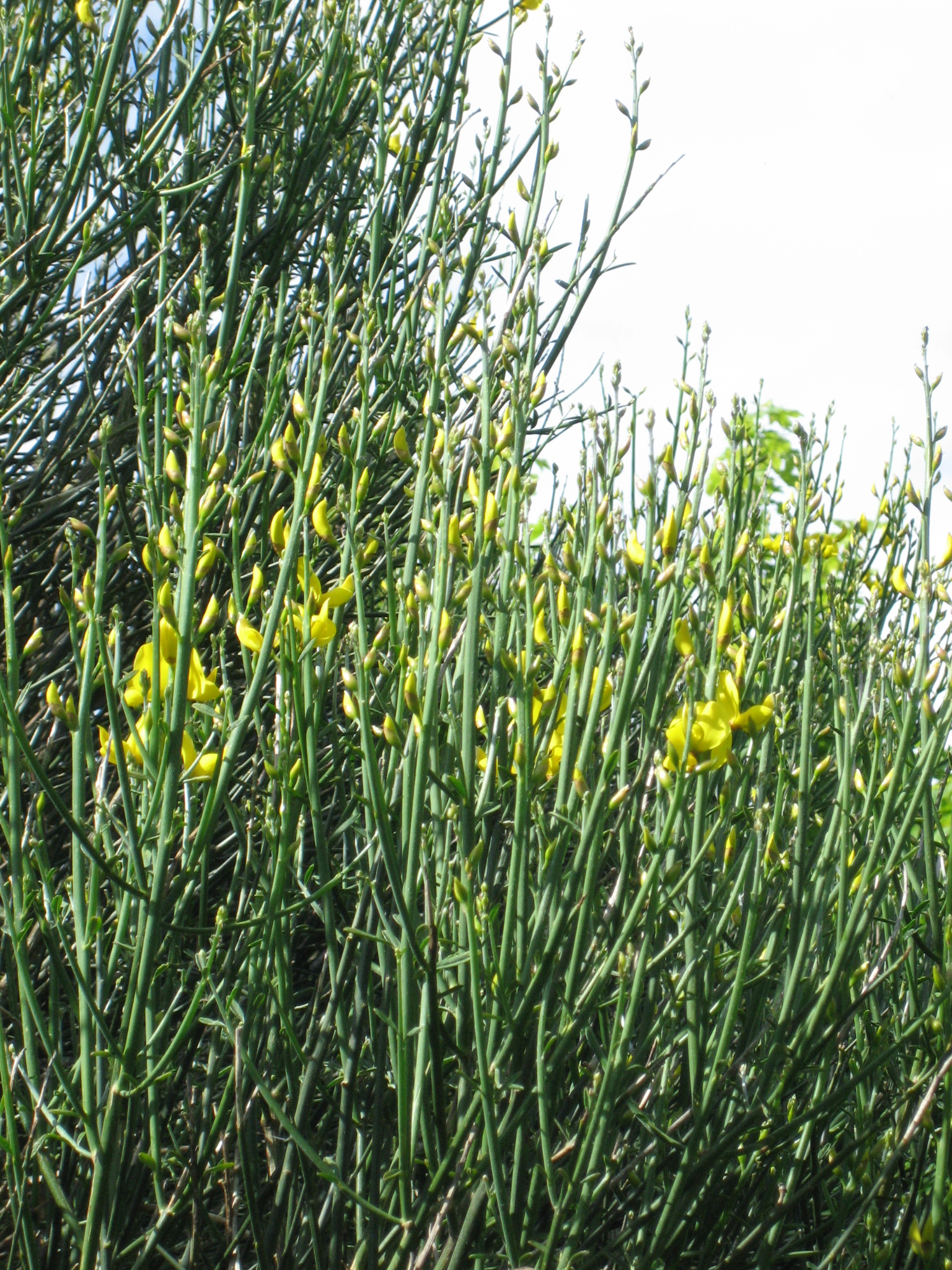 Spartium junceum, cultivated, Northumberland, UK.